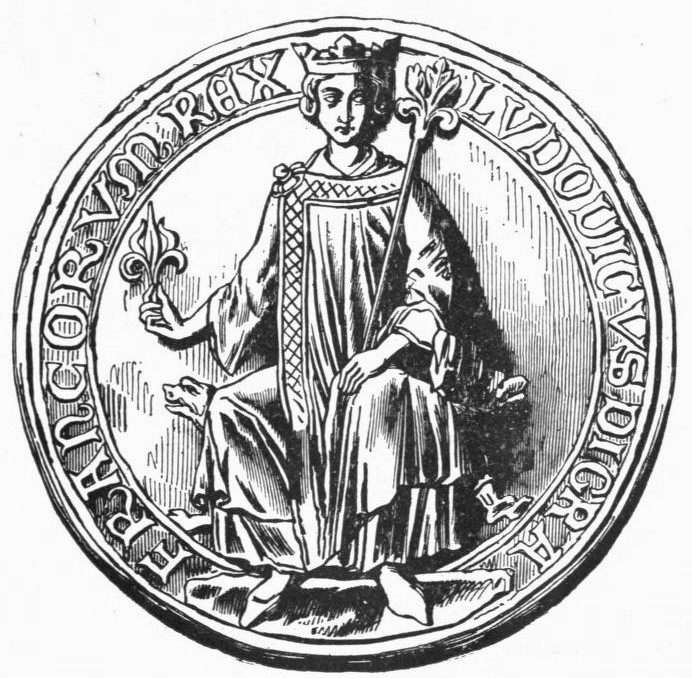 Louis IX